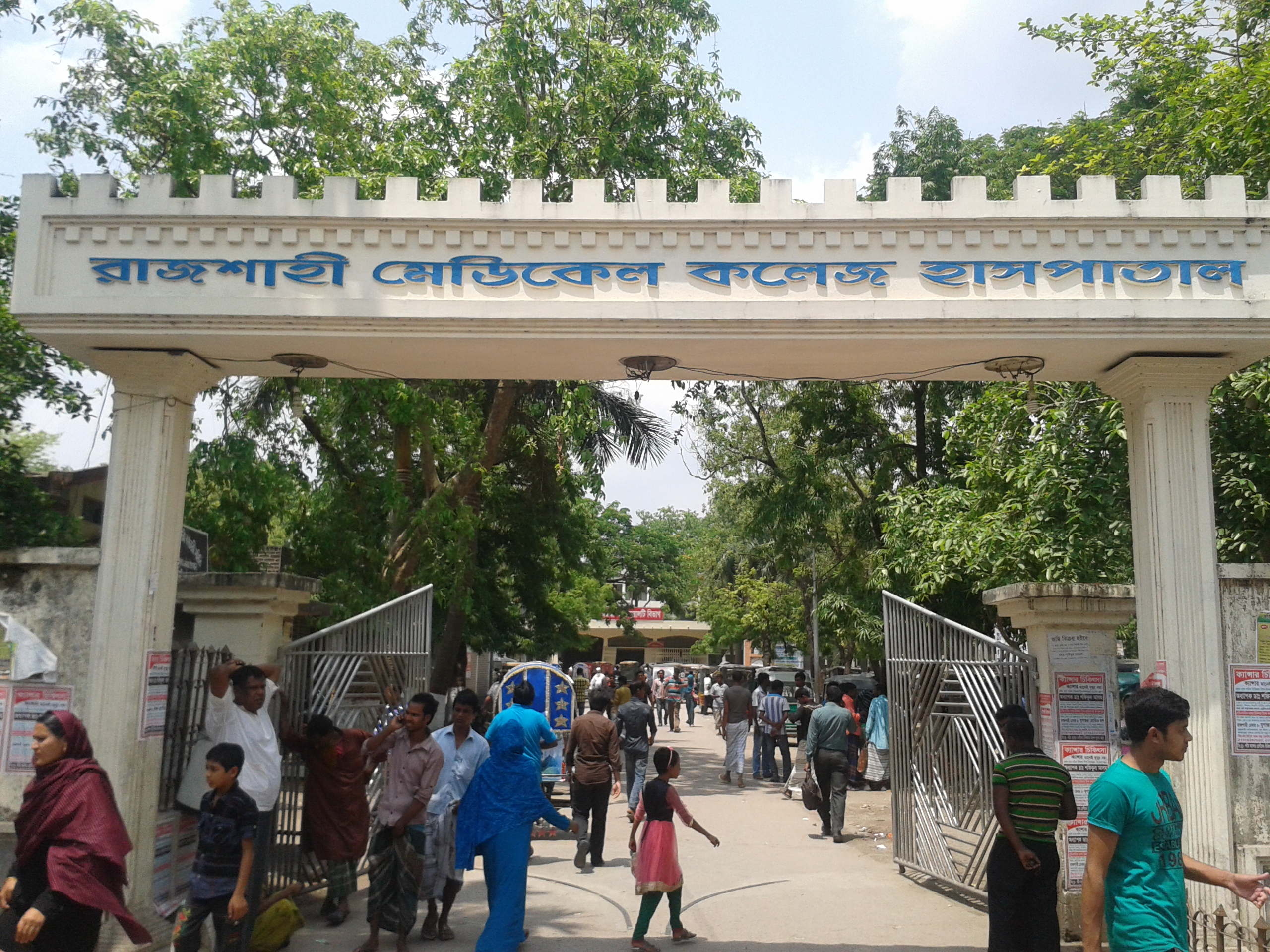 Rajshahi medicel college hospital